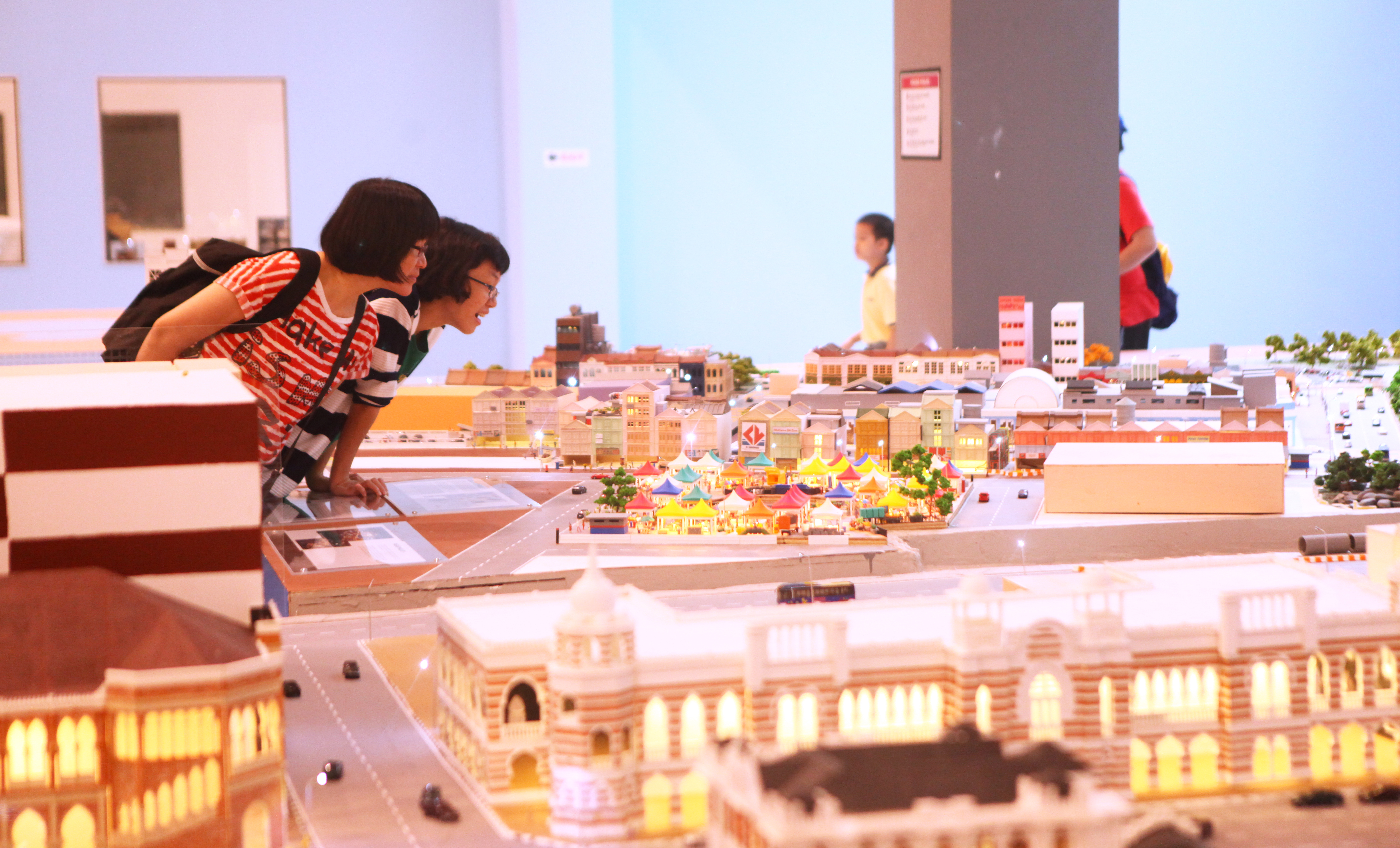 Visitors viewing MinNature exhibits